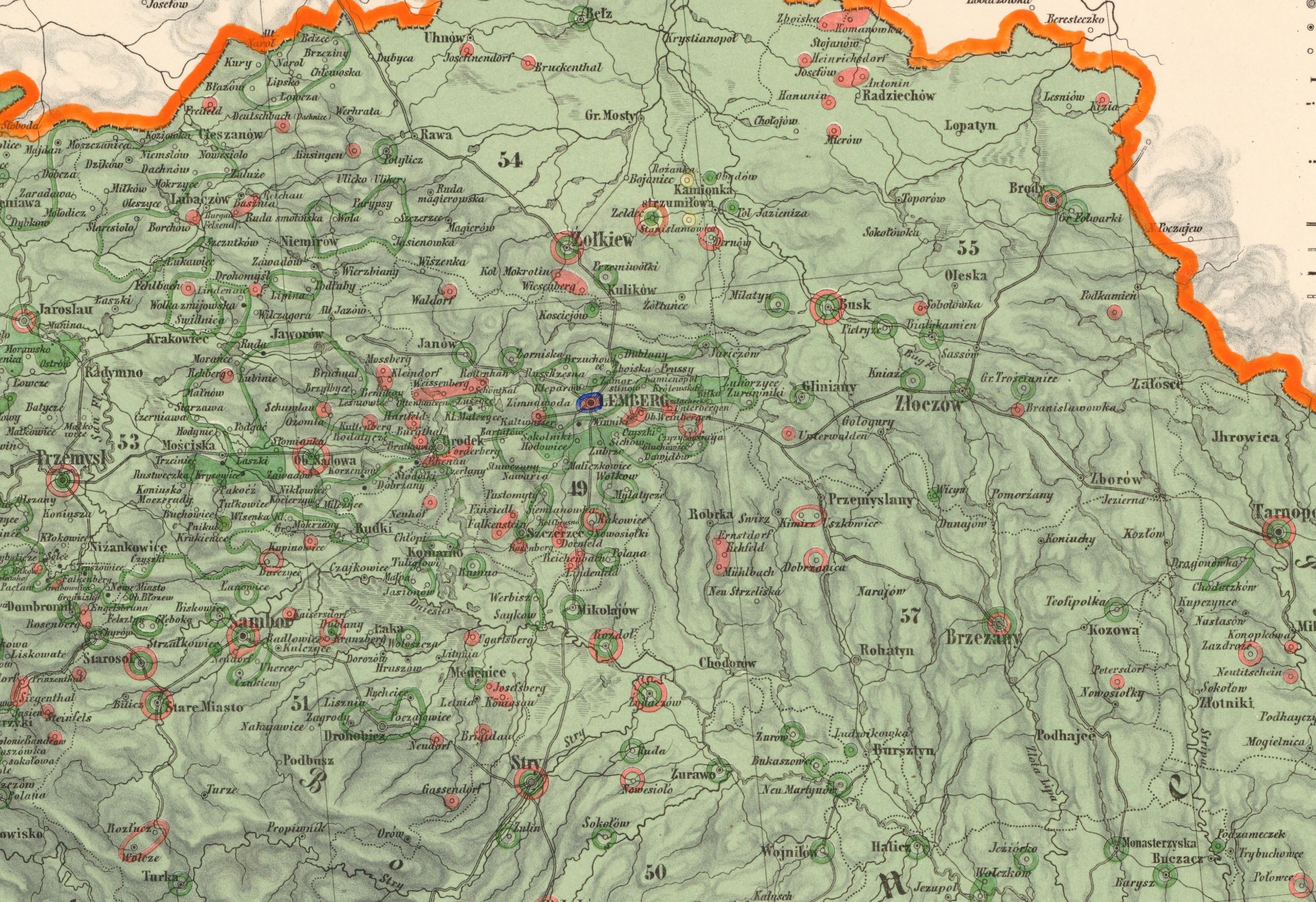 Languages around Lemberb/Lwów/Lwiw in 1855